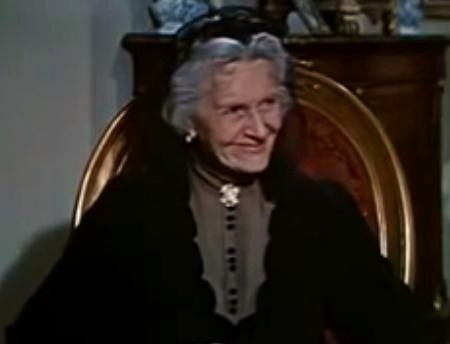 Cathleen Nesbitt in An Affair to Remember - trailer (cropped screenshot)